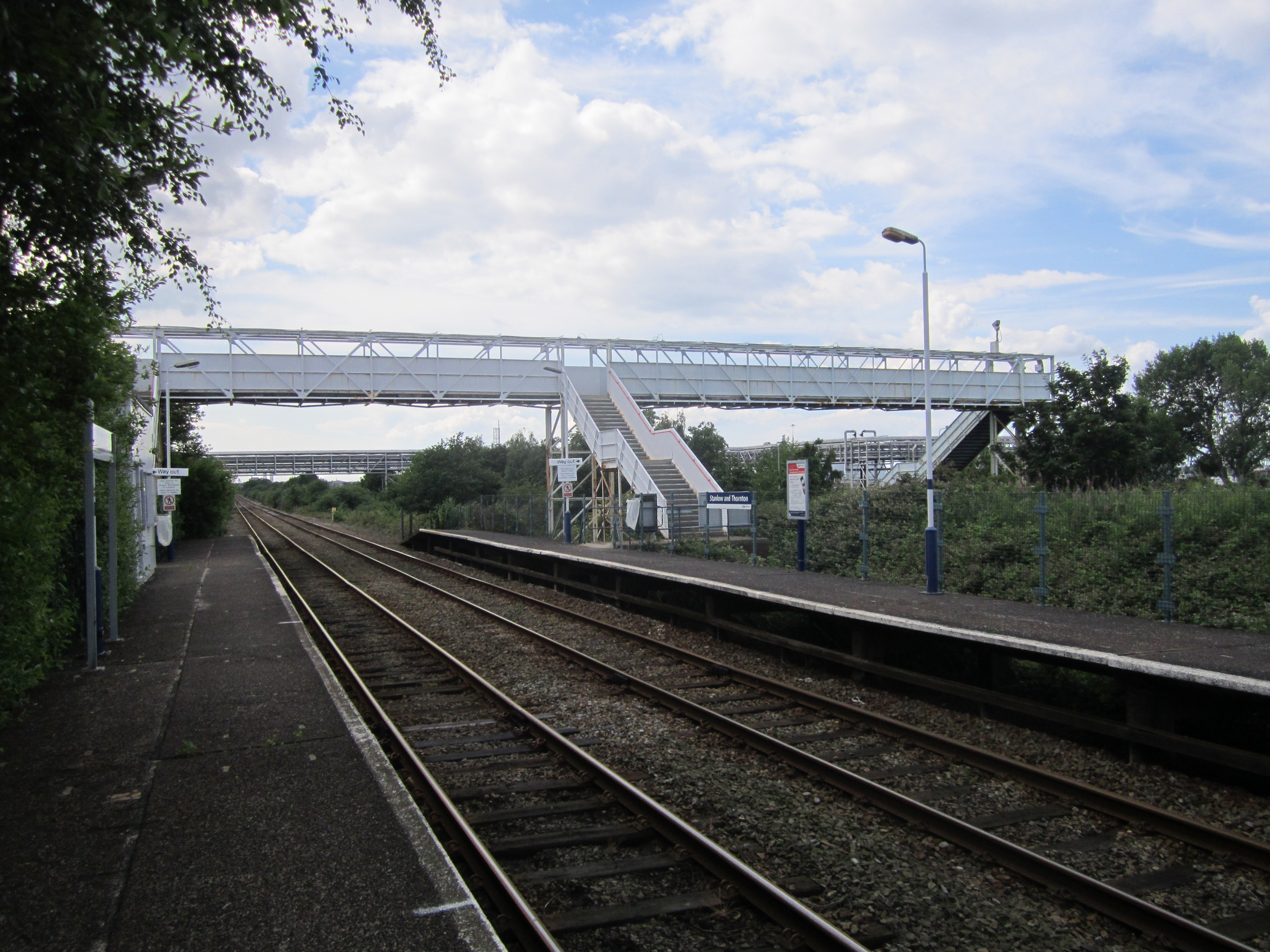 Photo taken at Stanlow and Thornton railway station, Cheshire, England.